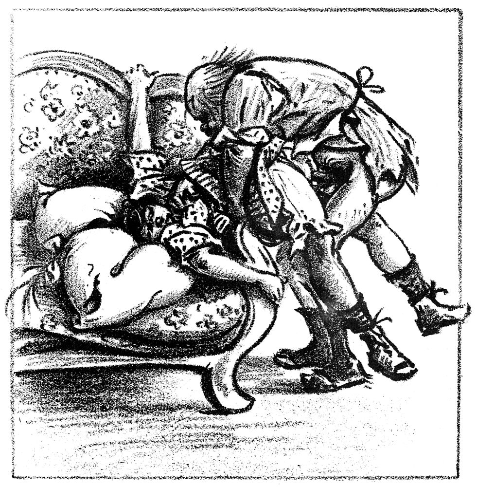 H. Zille: Vergewaltigung Illustration for the book